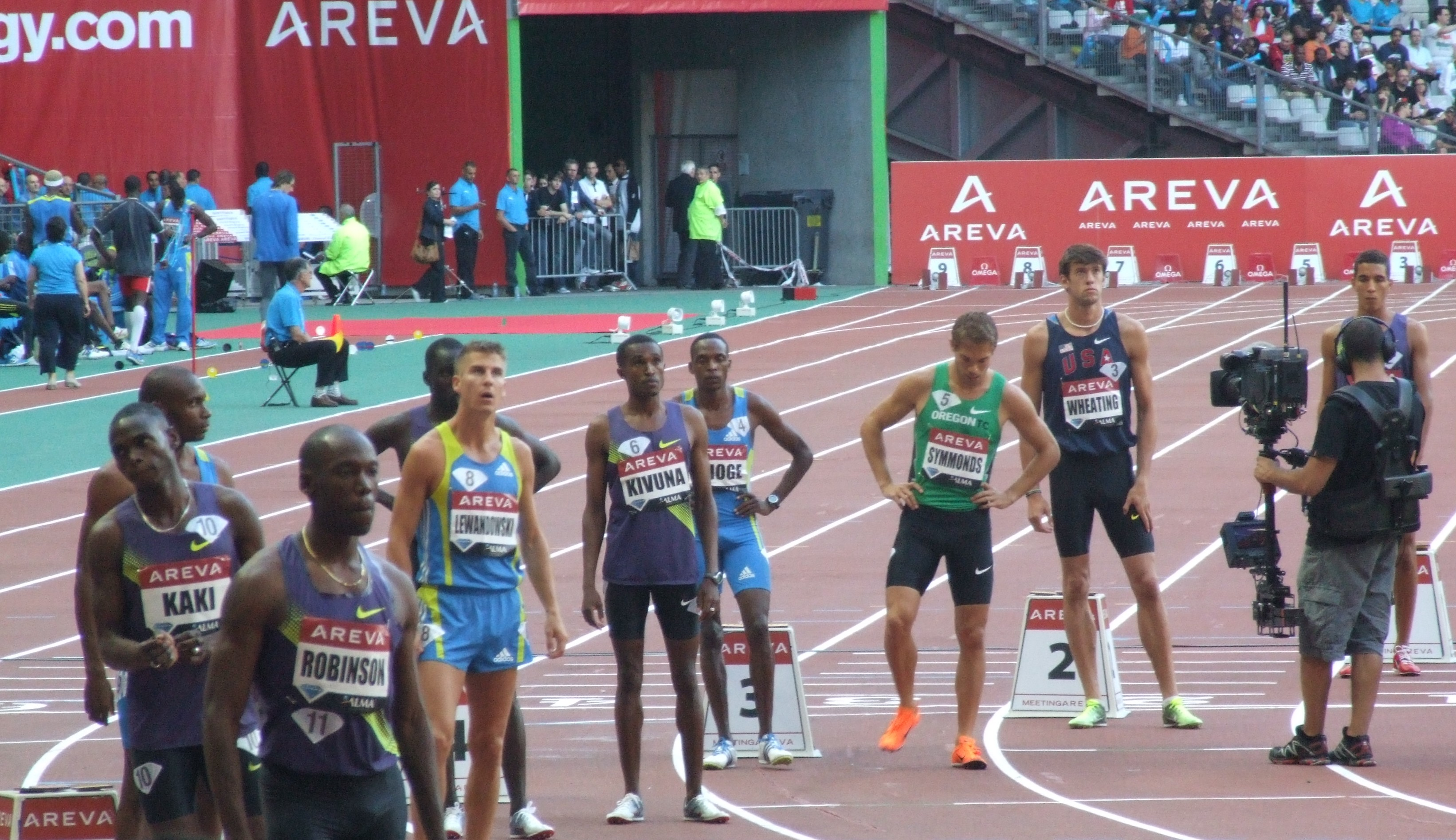 Start of 800 m mens during 2010 Meeting Areva, the ninth stage of the 2010 Diamond League in Saint-Denis, Paris.